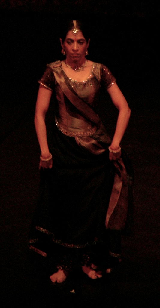 Aditi Mangaldas, show in Warsaw